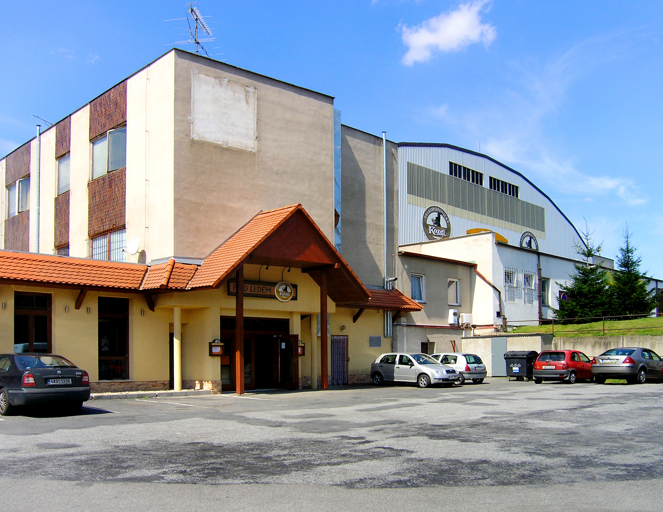 Ice pool by Ringhofferova street in Velké Popovice, Czech Republic